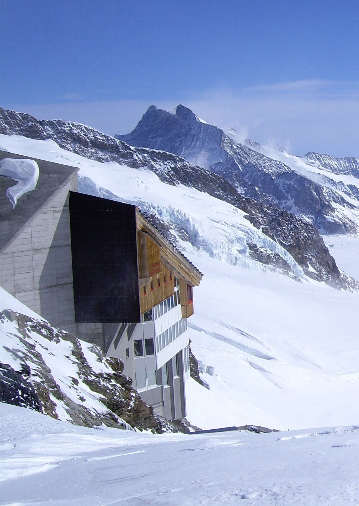 Buildings of Top of Europe facility at the end of Jungraujoch